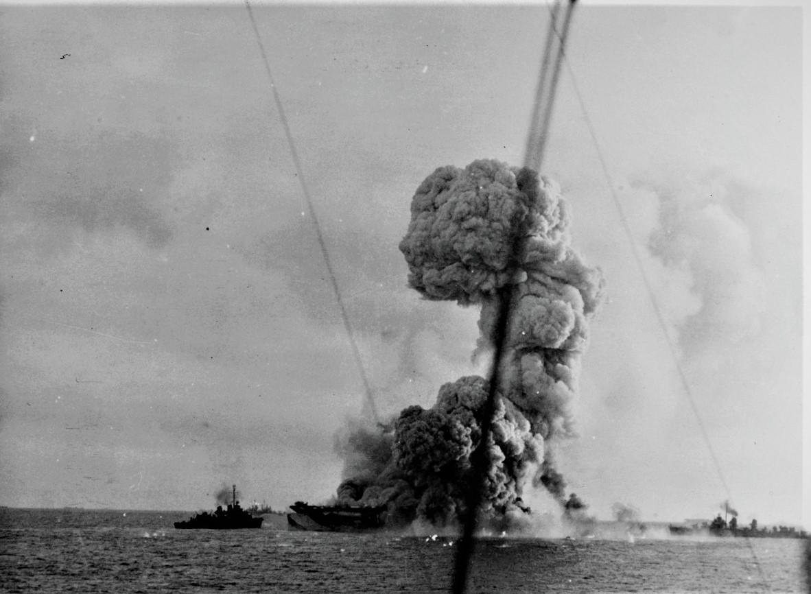 The sinking uss Ommaney Bay